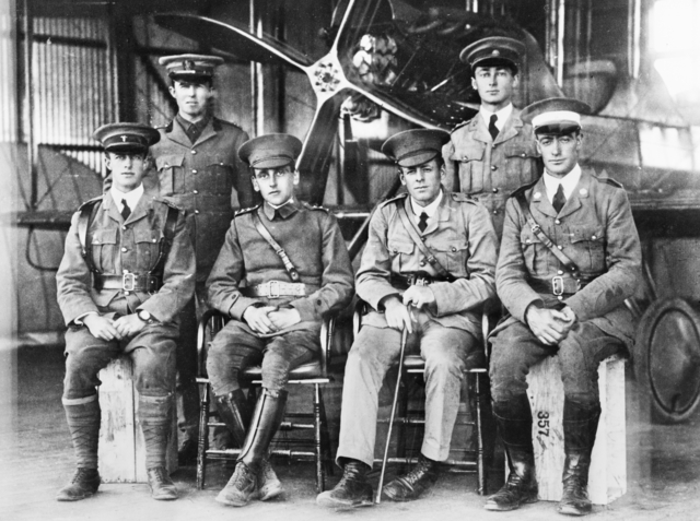 Australia: Victoria, Melbourne, Point Cook. Group portrait of instructors and pupils of the 1st flying training course in front of a B.E.2a aircraft in a hangar. Back row: R Williams; T W White. Front row: George Pinnock Merz of Ballarat, Vic; H A Petre; E Harrison; D T Manwell.